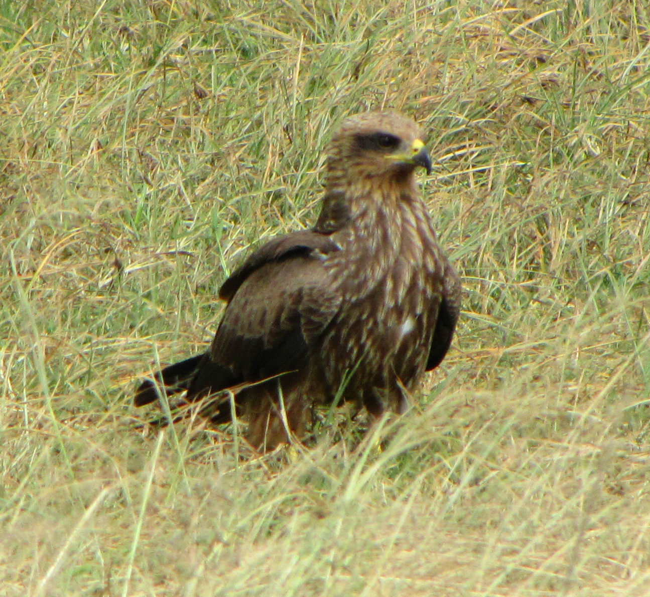 Yellow-billed Kite (Milvus aegyptius), juvenile, Ngorongoro Crater Park, Tanzania